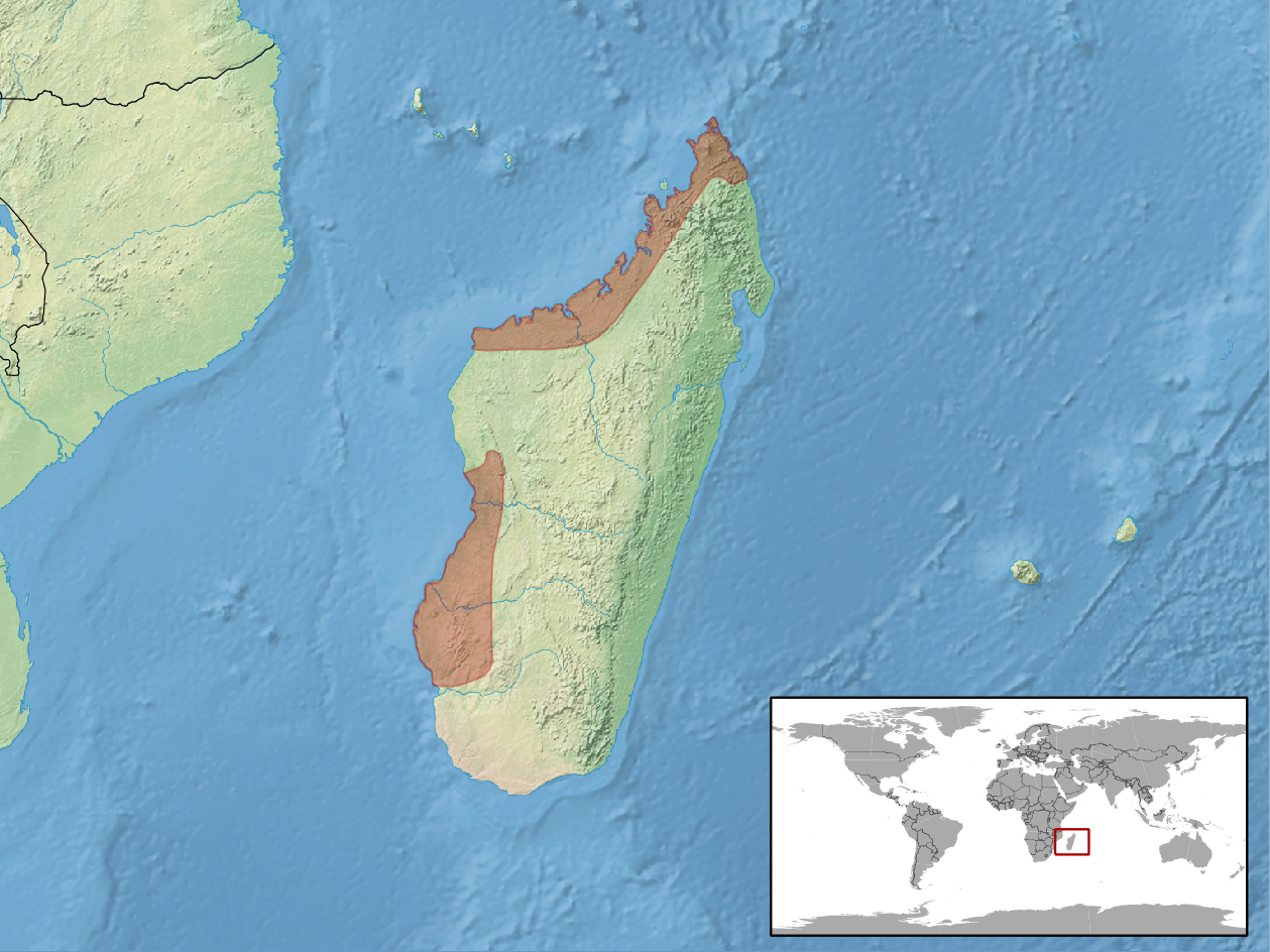 geographic distribution of Madascincus polleni